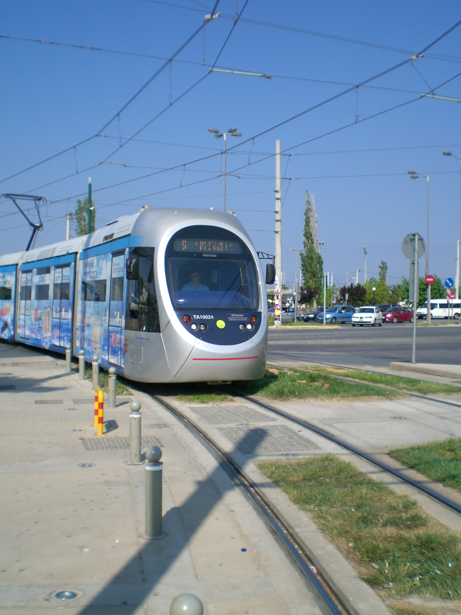 Tram that runs all along the Athens coastline towards the southern suburb of Glyfada (Greek: Γλυφάδα).